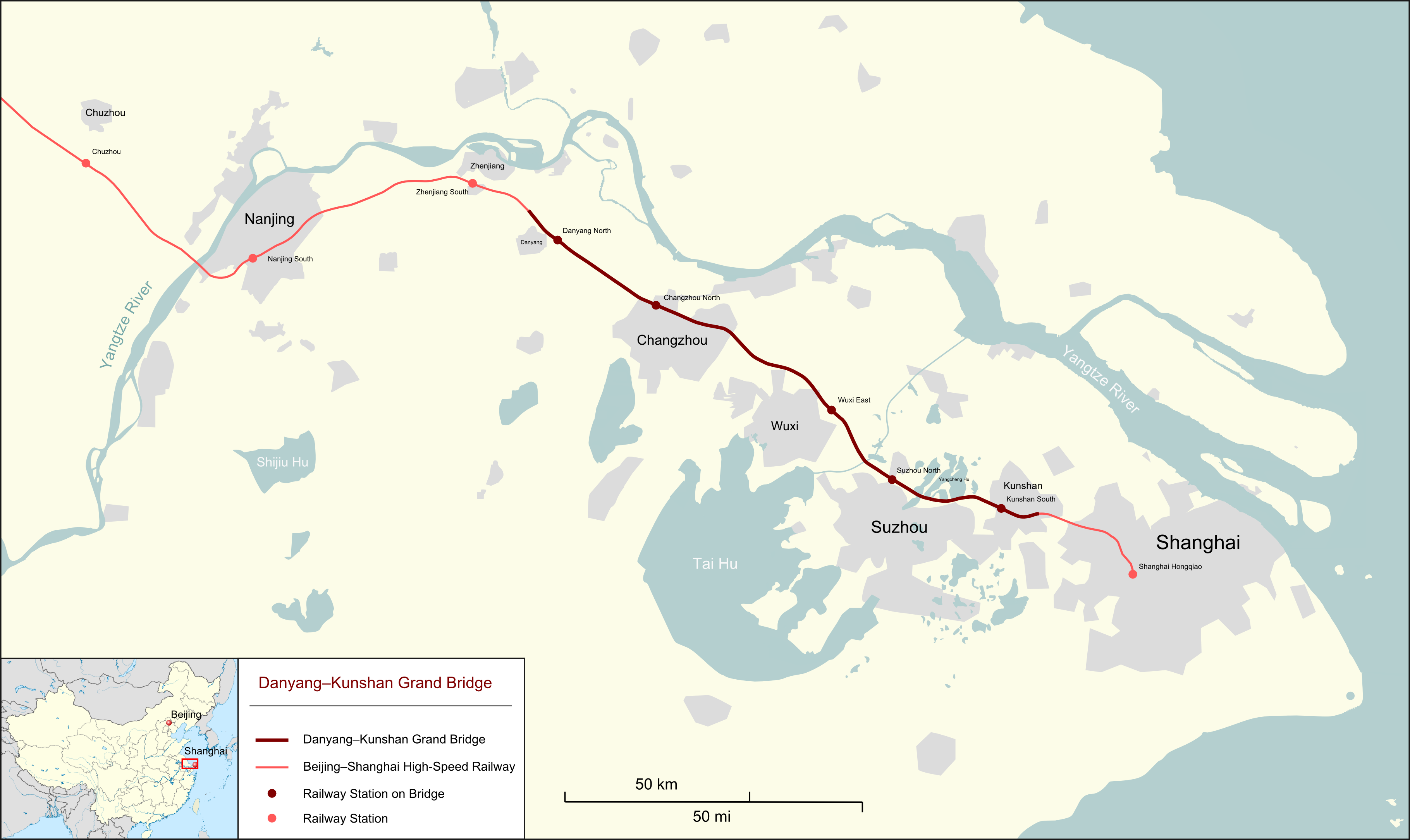 General map of Danyang–Kunshan Grand Bridge